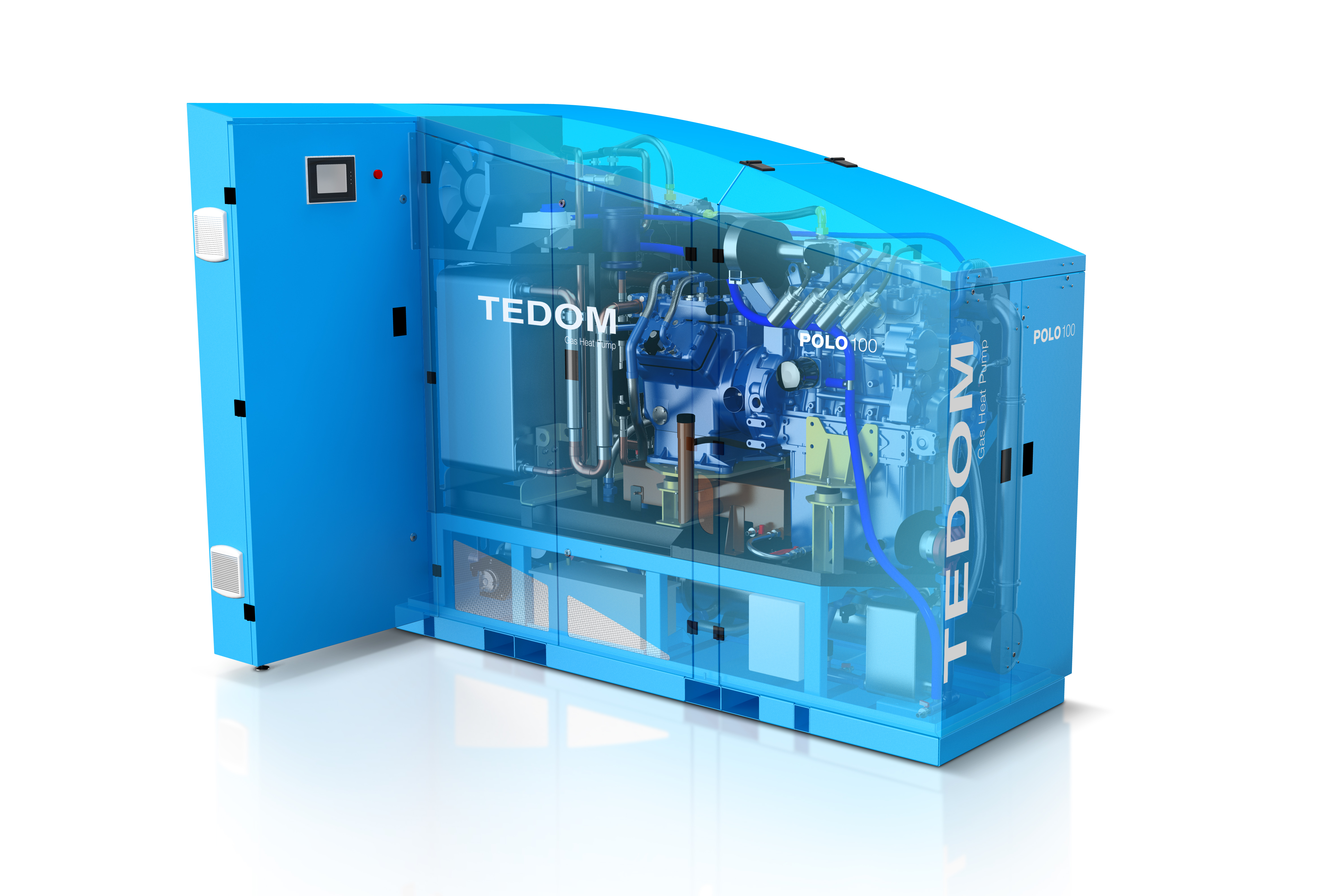 Gas Heat Pump designed and manufactured by TEDOM.